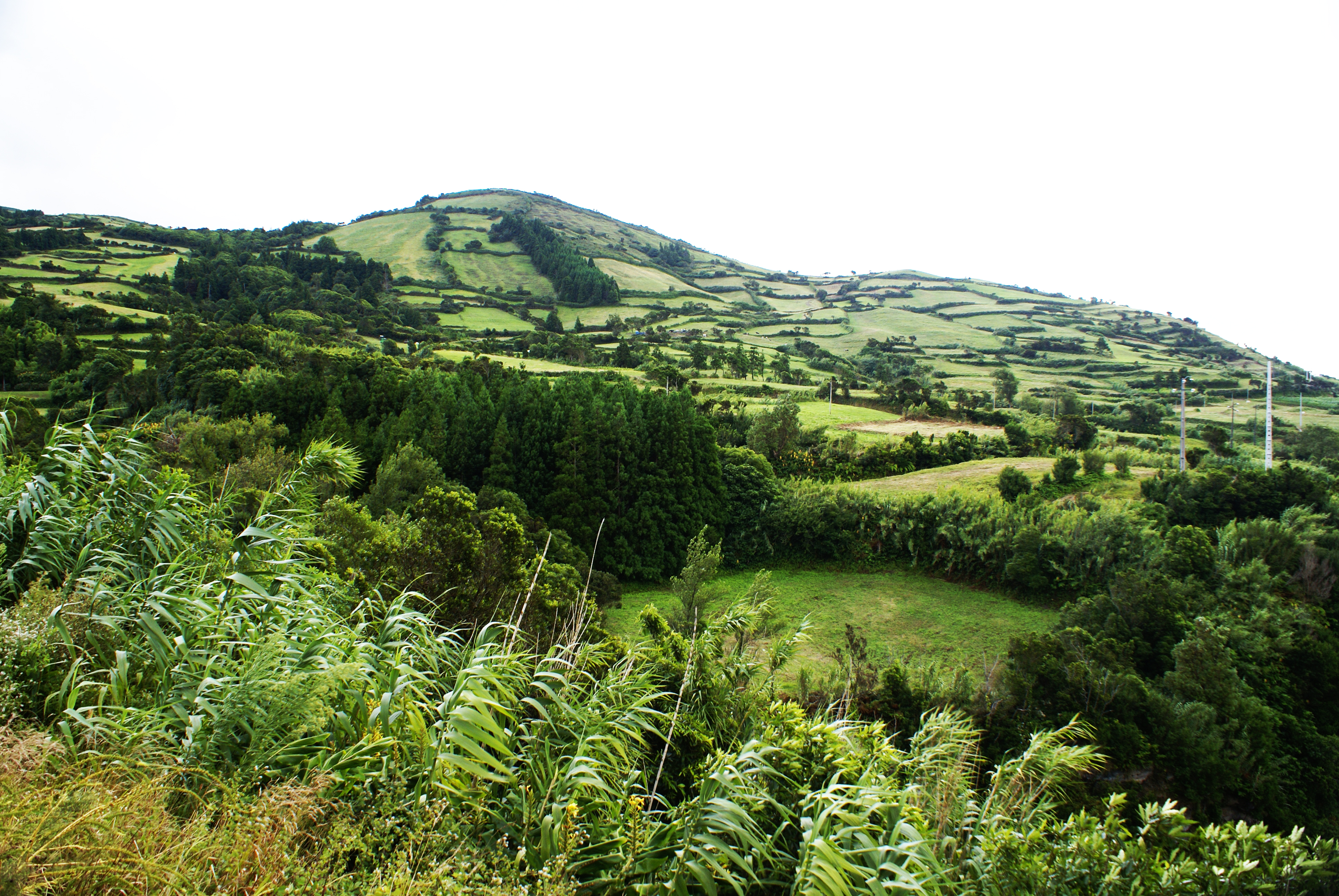 Miradouro da Ribeira Funda, Vistas, Ribeira Funda, Cedros, concelho da Horta, ilha do Faial, Açores, Portugal